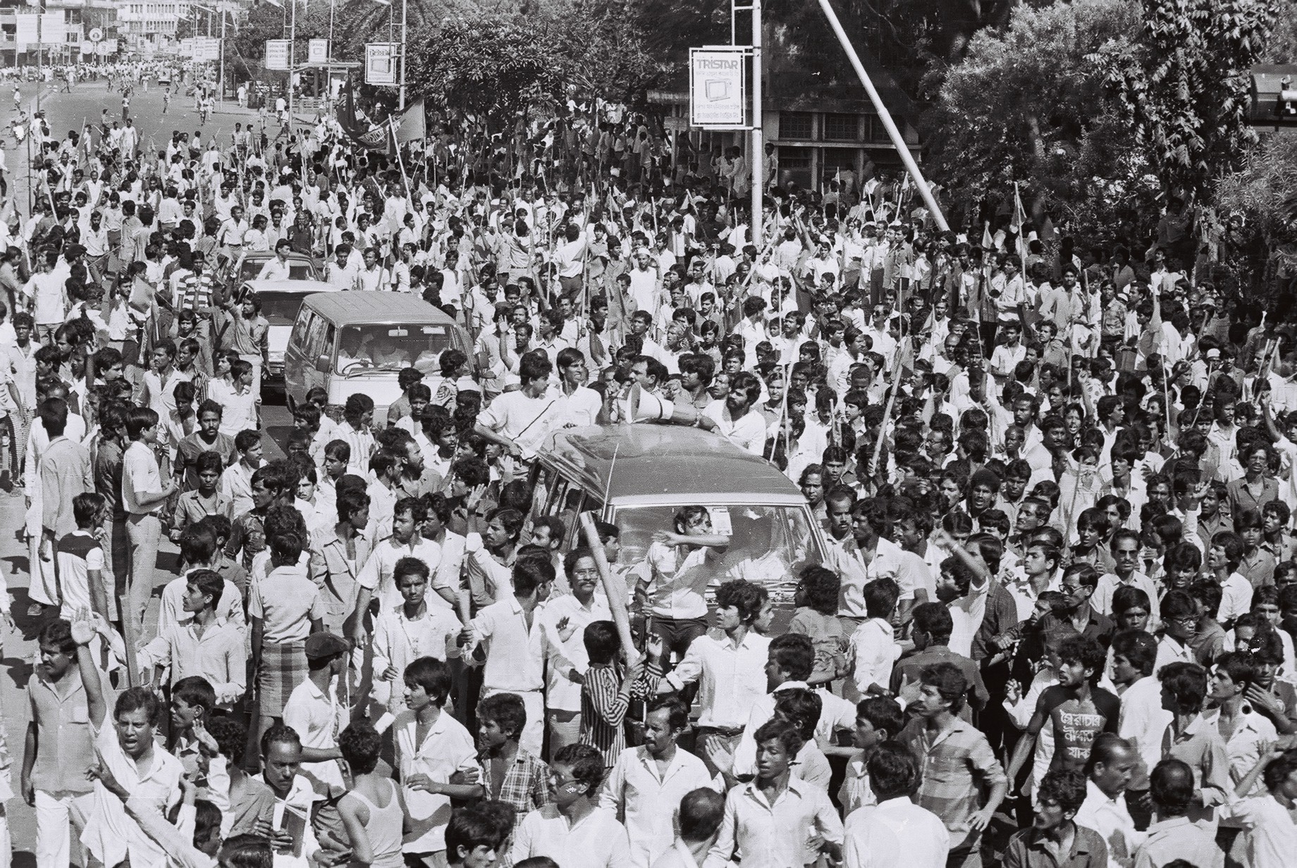 Awami League Rally on Nov 10 1987 Protest : "স্বৈরাচার নীপাত যাক" // "Shoirachar Nipat Jaak". 10 November 1987 protest for democracy in Dhaka : ছবিটি তুলেছেন :: দিনু আলম / Dinu Alam